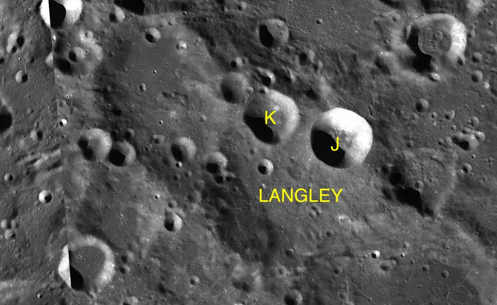 Part of the chart LAC-21 used for the presentation